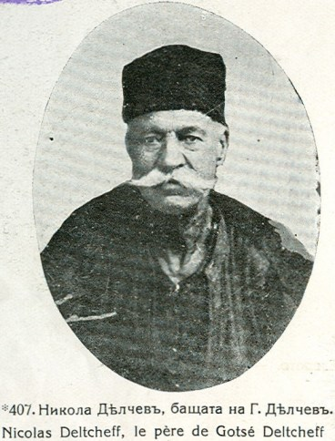 Nikola Delchev (1844-1920), father of Gotse Delchev